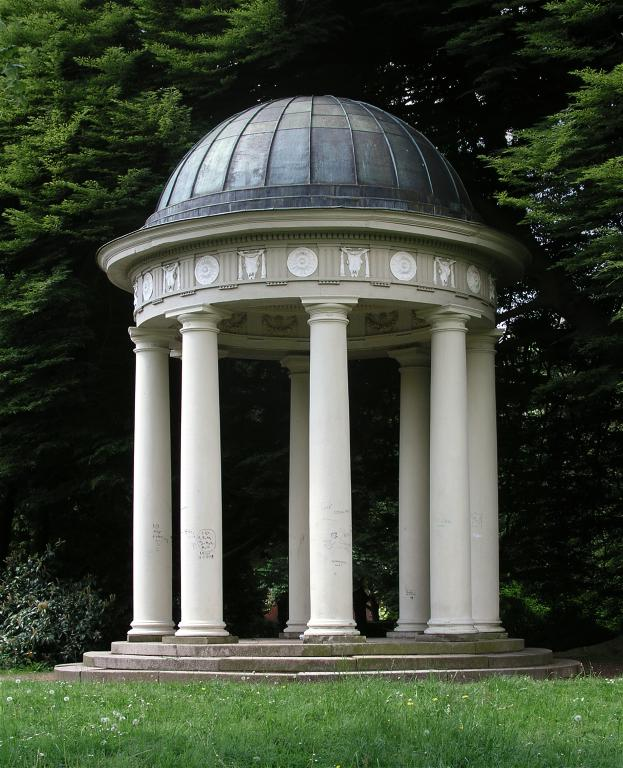 Eutin, Germany: Monopteros in the pard of castle, photo 2003